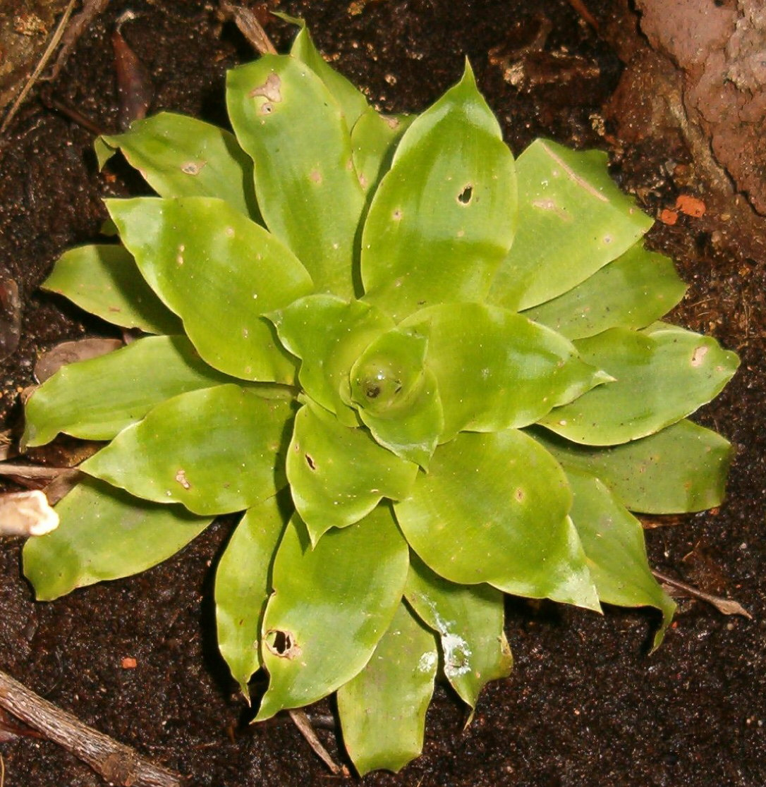 Location: Botanical Gardens Berlin Dahlem Habitus